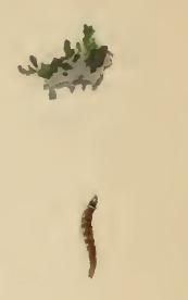 Stainton’s Natural History of the Tineina (1855–1873): Bryotropha domestica moss being eaten by larva